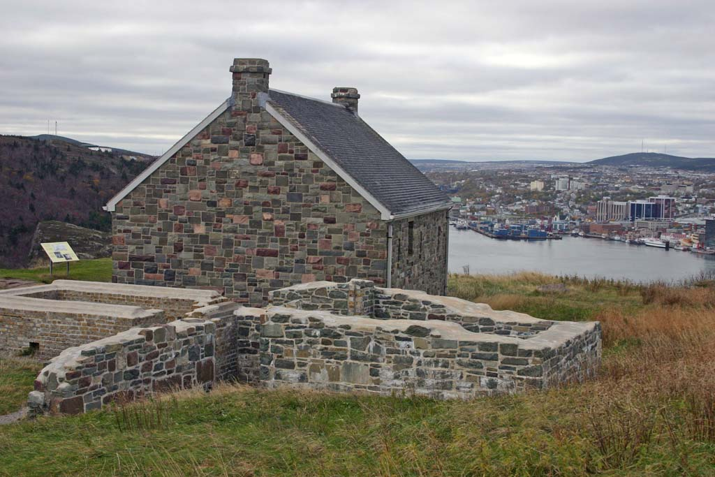 Queen's Battery on Signal Hill, with St. John's harbour and waterfront in the background.